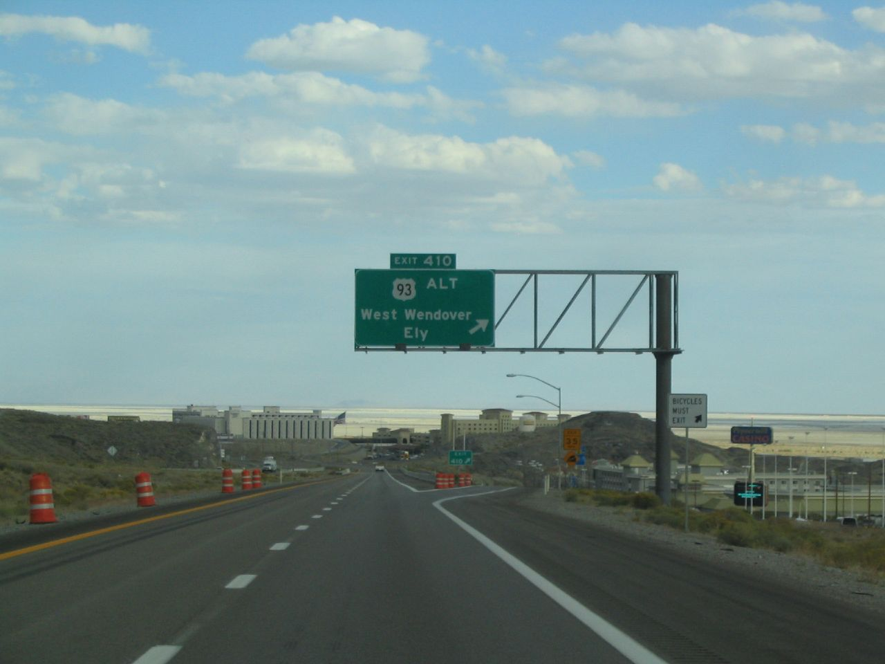 I-80 eastbound approaching West Wendover, Nevada. U.S. Route 93 Alternate ends its concurrency with I-80 here. This is also the unsigned Wendover Boulevard / Business I-80 interchange.